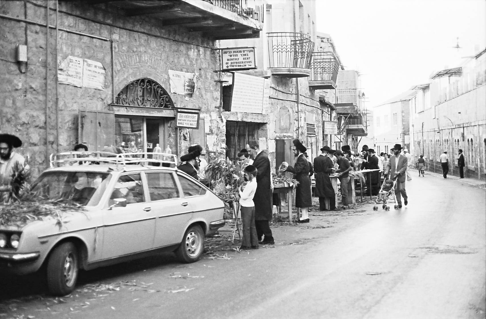 Jewish holidays